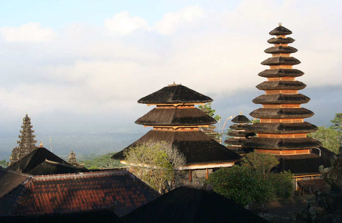 The early morning sun hits the spires of Pura Besakih, Bali